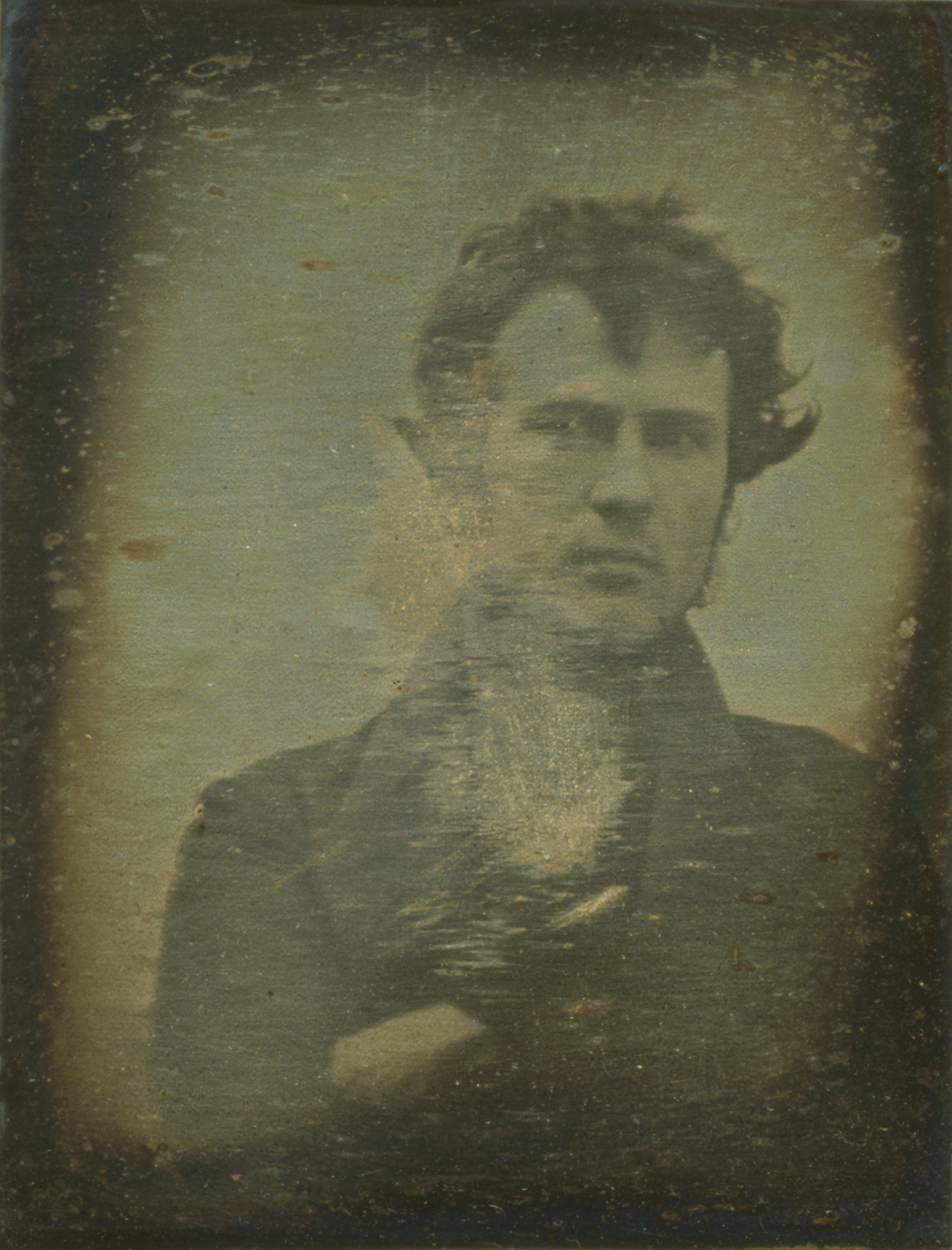 The first photographic portrait image of a human ever produced. "Robert Cornelius, head-and-shoulders [self-]portrait, facing front, with arms crossed", approximate quarter plate daguerreotype, 1839 [Oct. or Nov.]. LC-USZC4-5001 DLC Also see: Library of Congress, American Memory, complete source description.